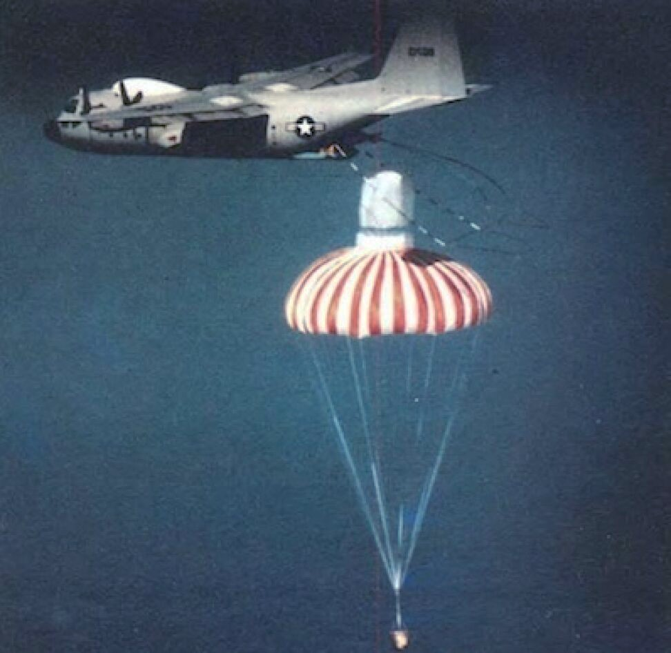 A U.S. military C-130 aircraft retrieving a film capsule under parachute. Credit: National Reconnaissance Office